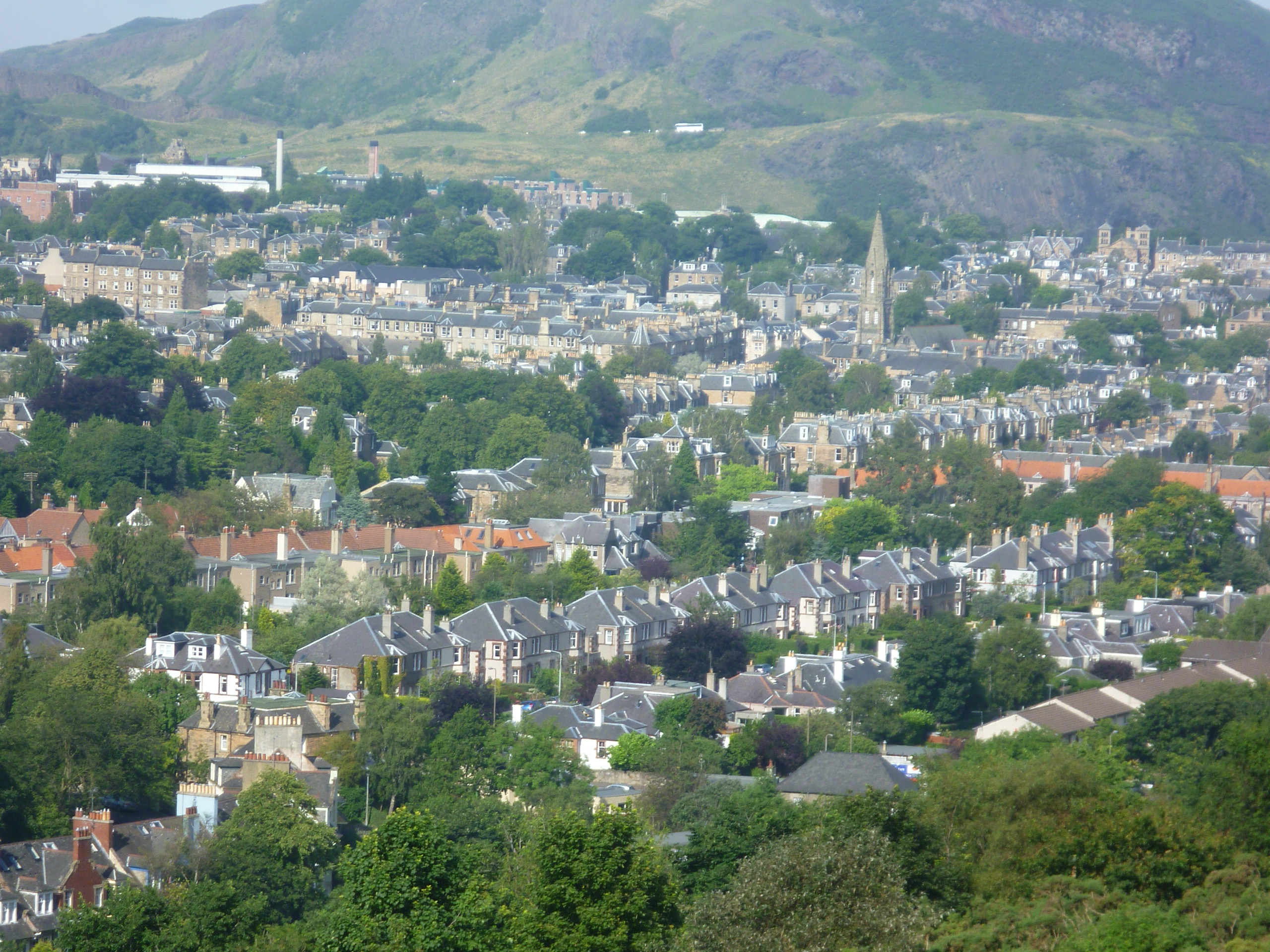 View of the Mayfield area of Edinburgh from Blackford Hill.